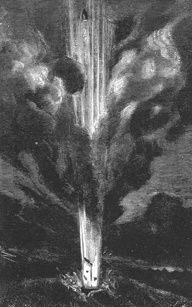 From the Earth to the Moon engraving from the 1872 illustrated edition.